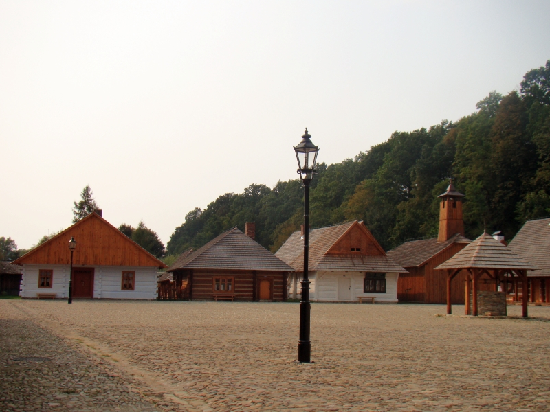 Galician market square in Skansen, Sanok